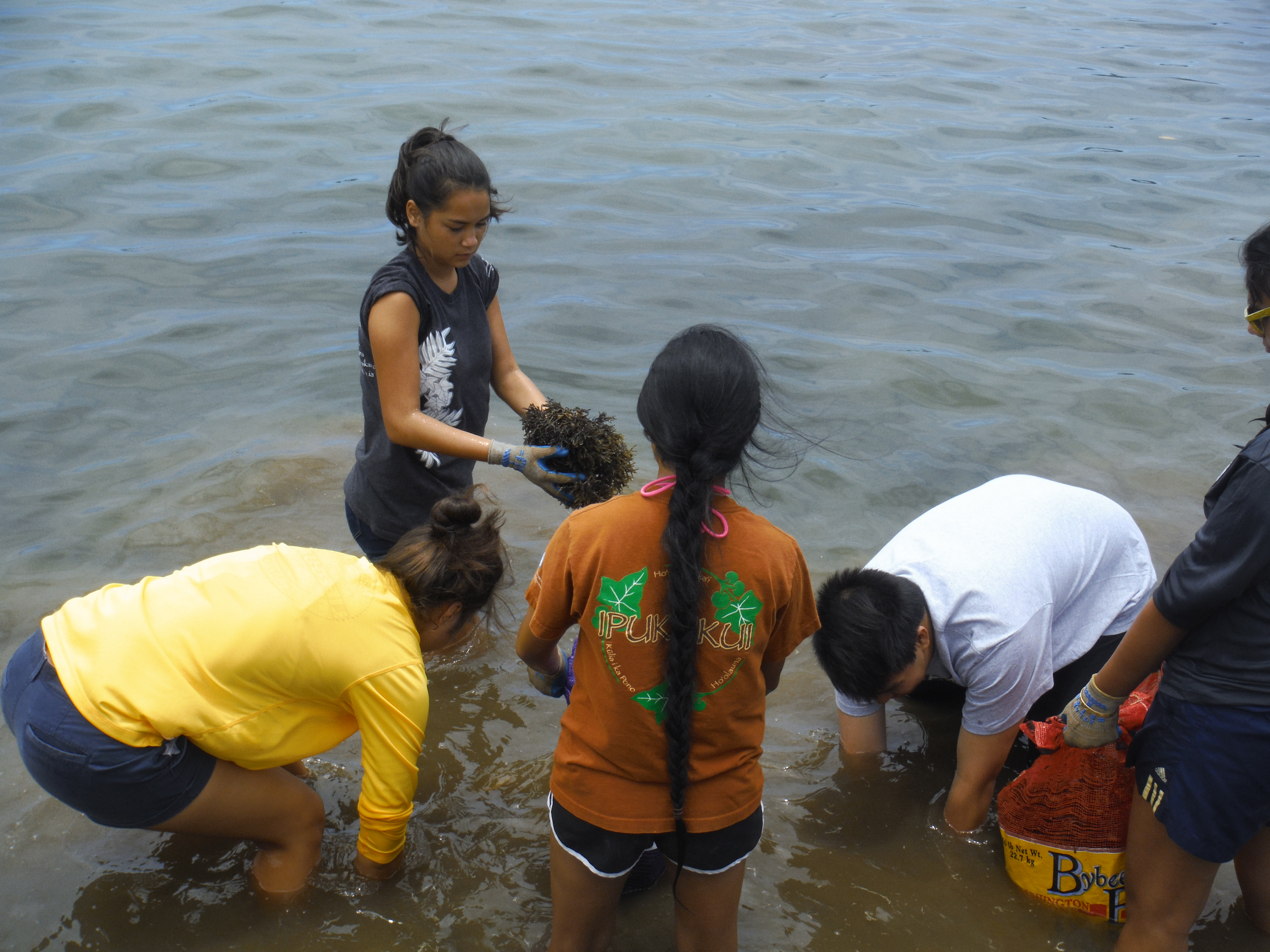 Students from Nā Pua No‘eau remove invasive algae from Kāne‘ohe Bay